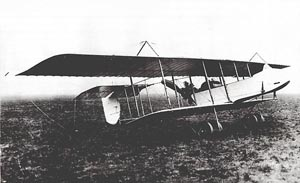 An RAF Henry Farman Biplane.